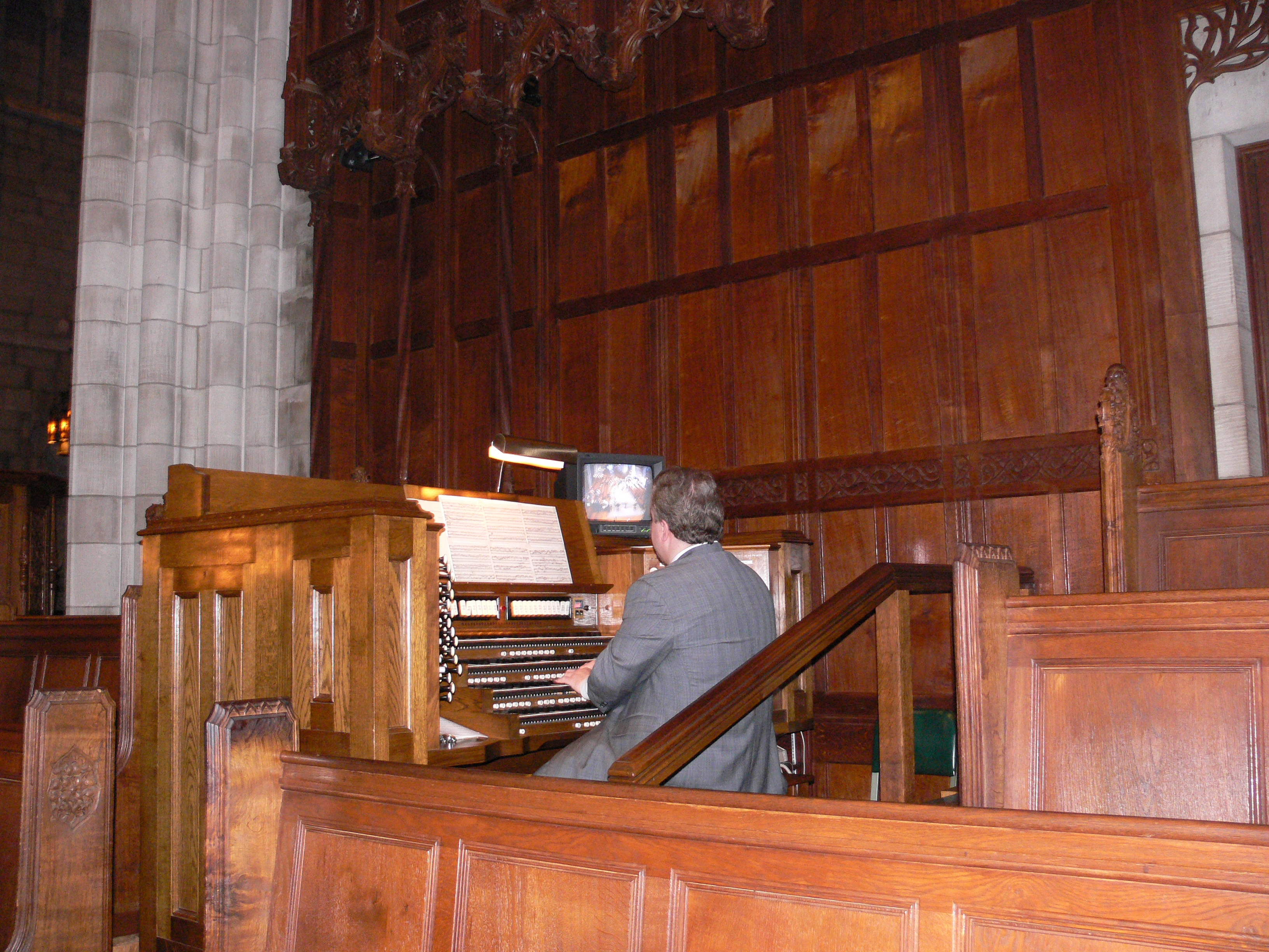 Console of the Mander Organ at Princeton University Chapel (with University organist Eric Plutz playing) Princeton University, Princeton, New Jersey